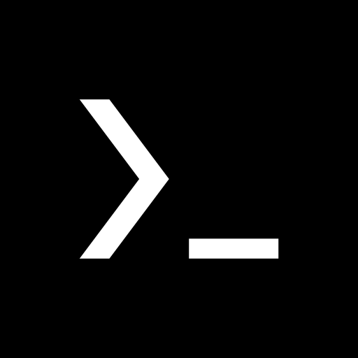 Termux icon